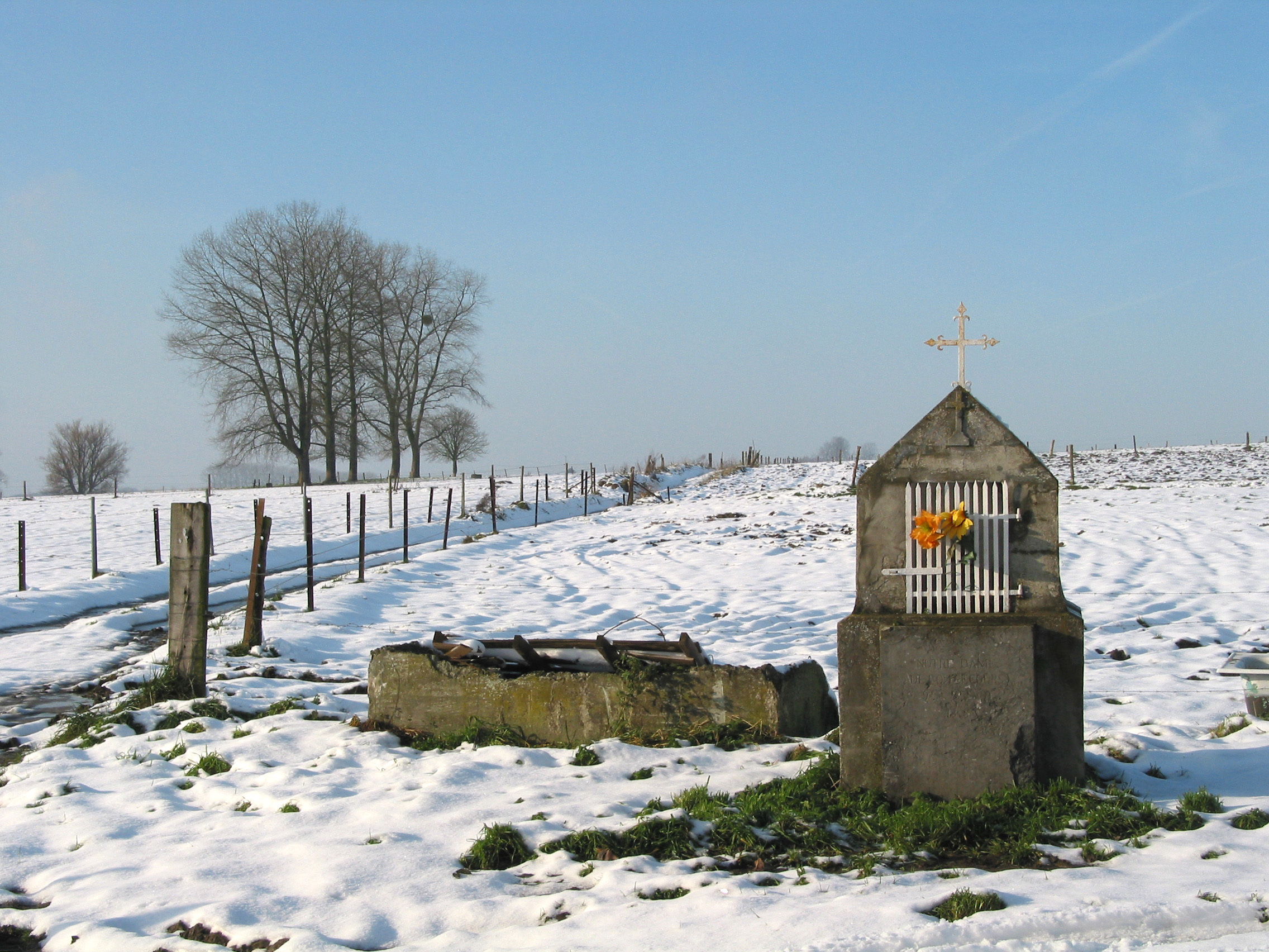 Thieusies (Belgium), little votive chapel dedicated to Notre-Dame de Bon-Secours.